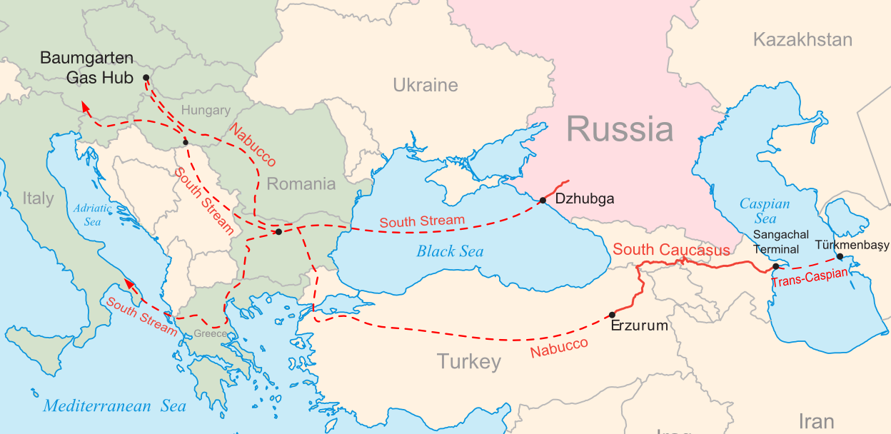 Map of the South Stream and Nabucco natural gas transportation pipelines. EU member countries are in green.